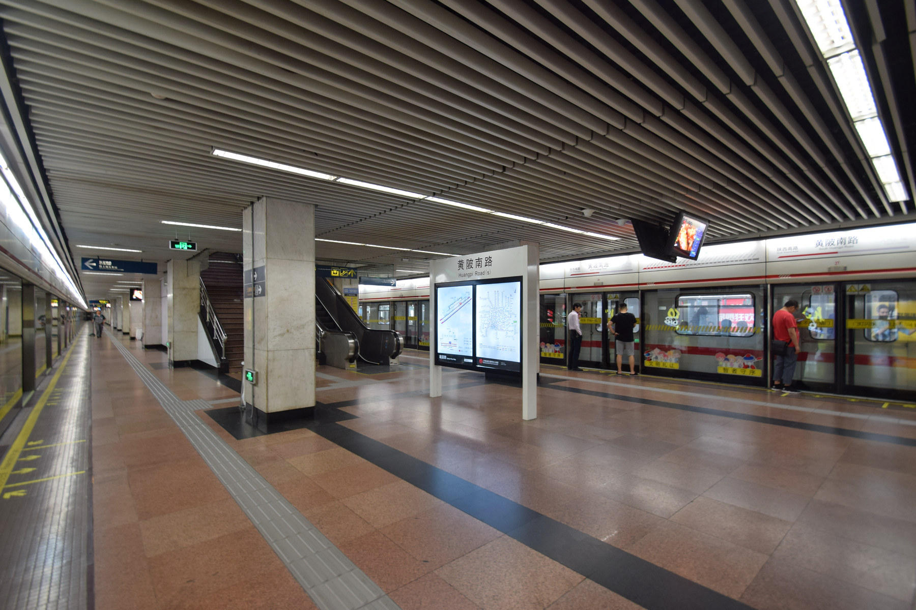 Line 1 Platform of South Huangpi Road Station, Shanghai Metro